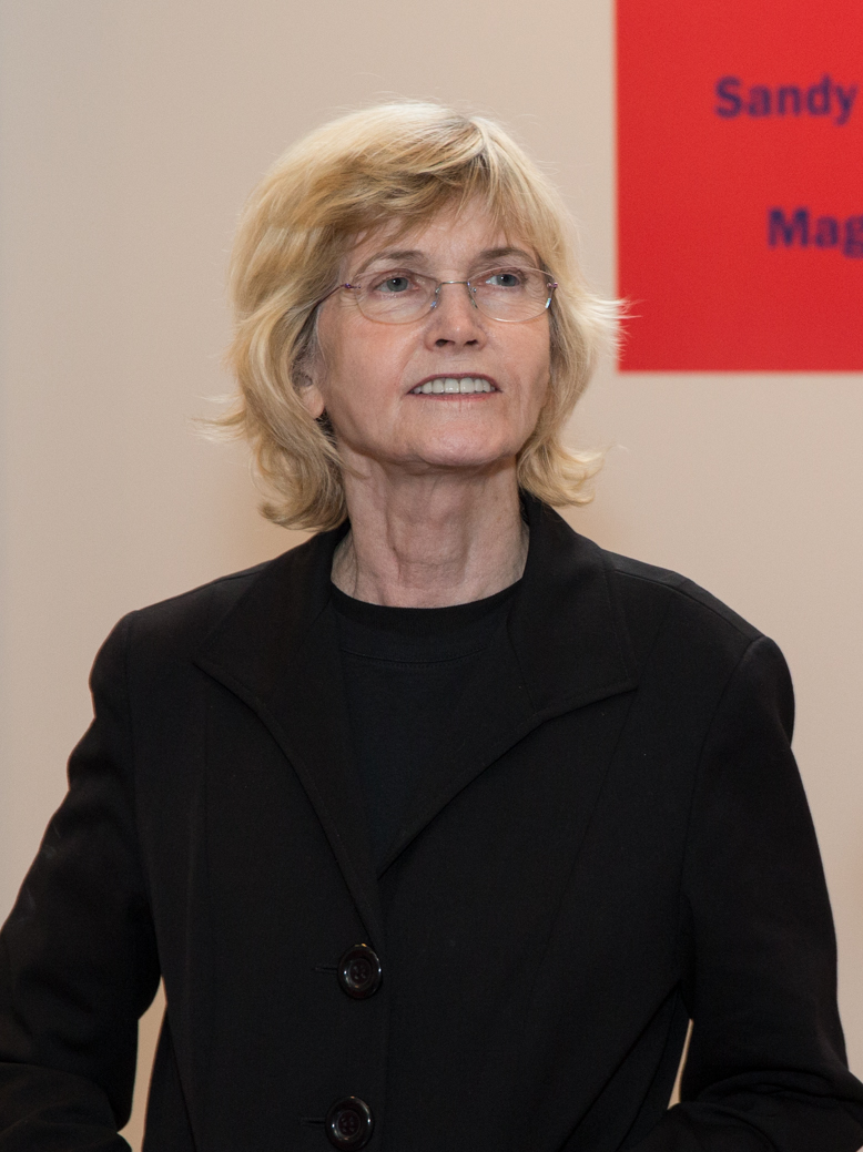 Artist Sandy Skoglund at an opening of her Magic Time series at the Fay Gold Gallery, Atlanta